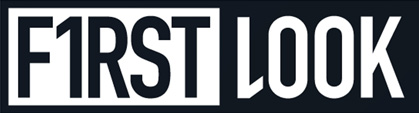 The Logo for First Look Media and First Look LLC.